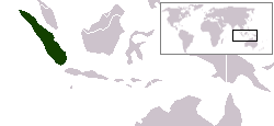 Locator map of Sumatra